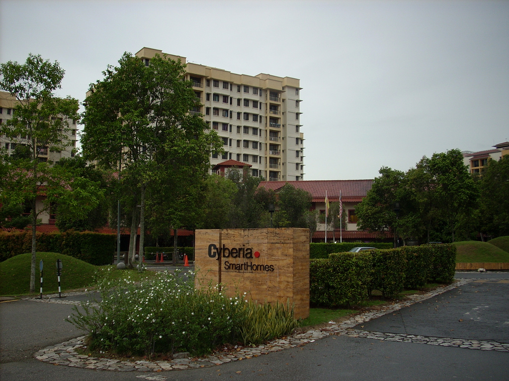 Cyberia Condominium Area, Cyberjaya, Malaysia